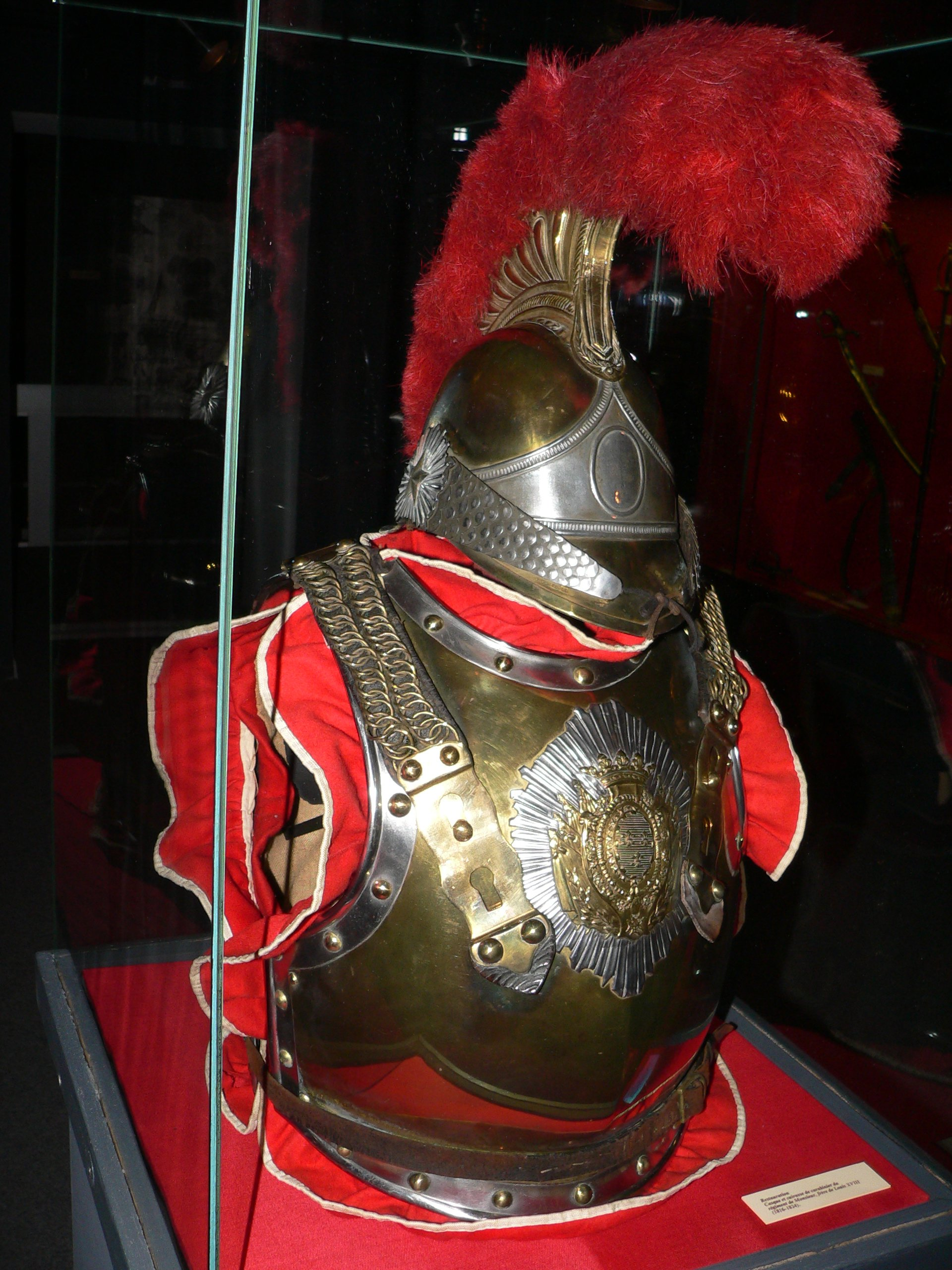 Armours and cuirassier armours, musee d'Art et d'Histoire de Neuchatel